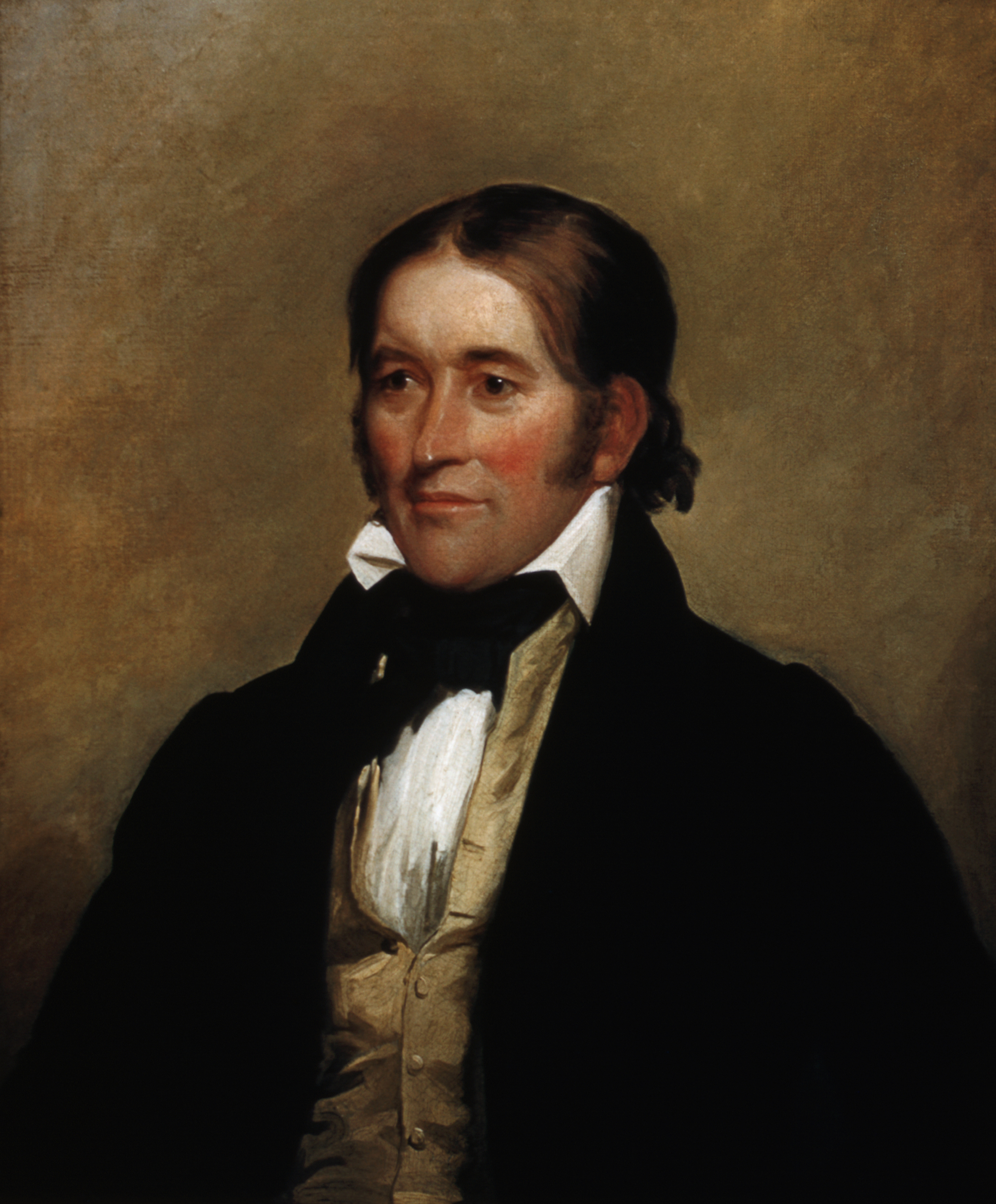 David Crockett by Chester Harding (Photo by Barney Burstein/Corbis/VCG via Getty Images)